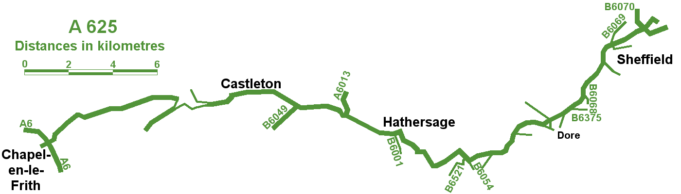 Geographically accurate plan of British road A625 before 2000 reclassification.